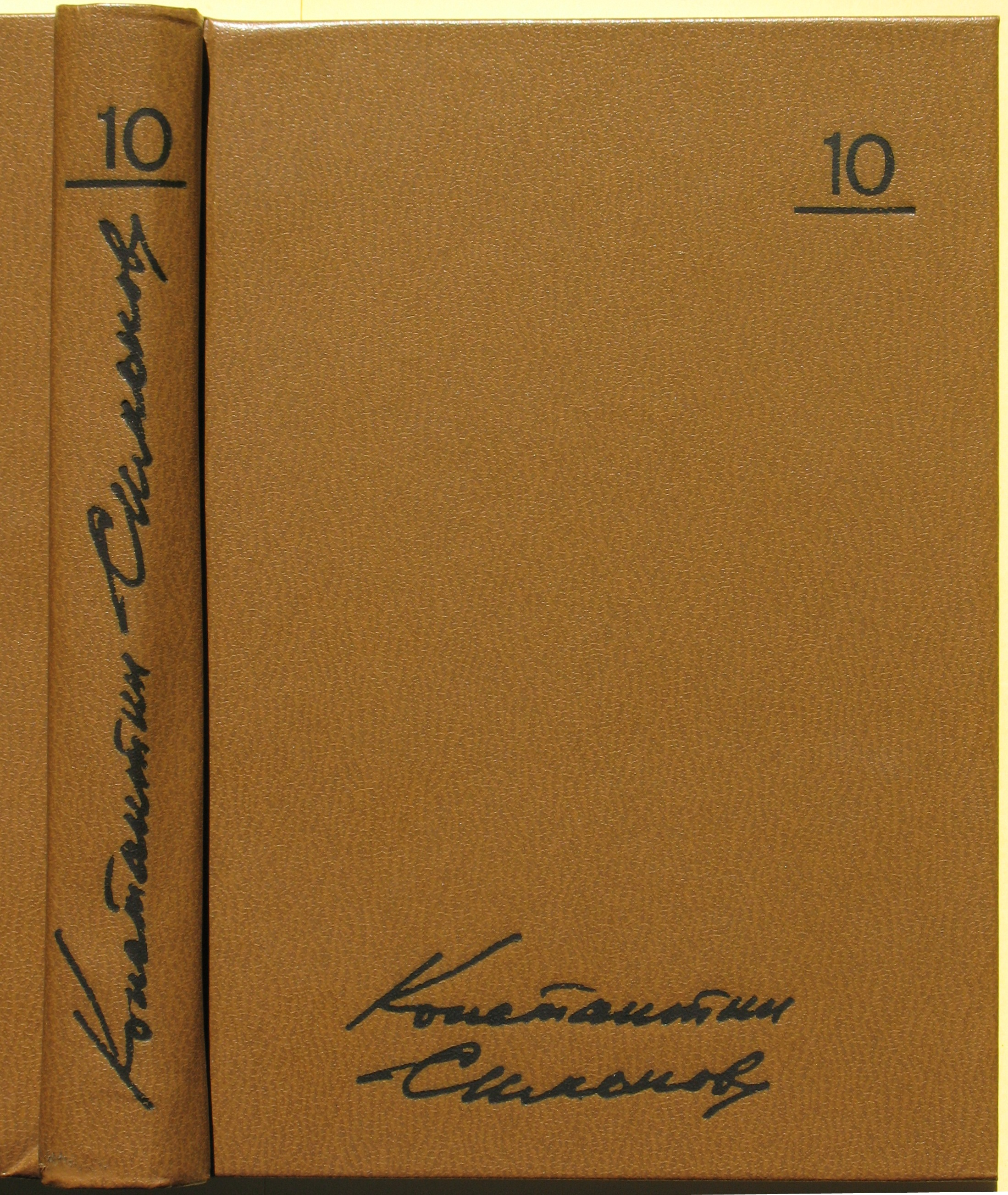 Konstantin Simonov two signatures on his book (1984).